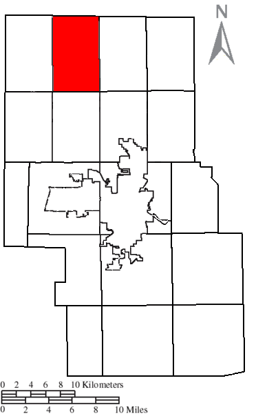 Made by the US Census and altered by myself to highlight the township